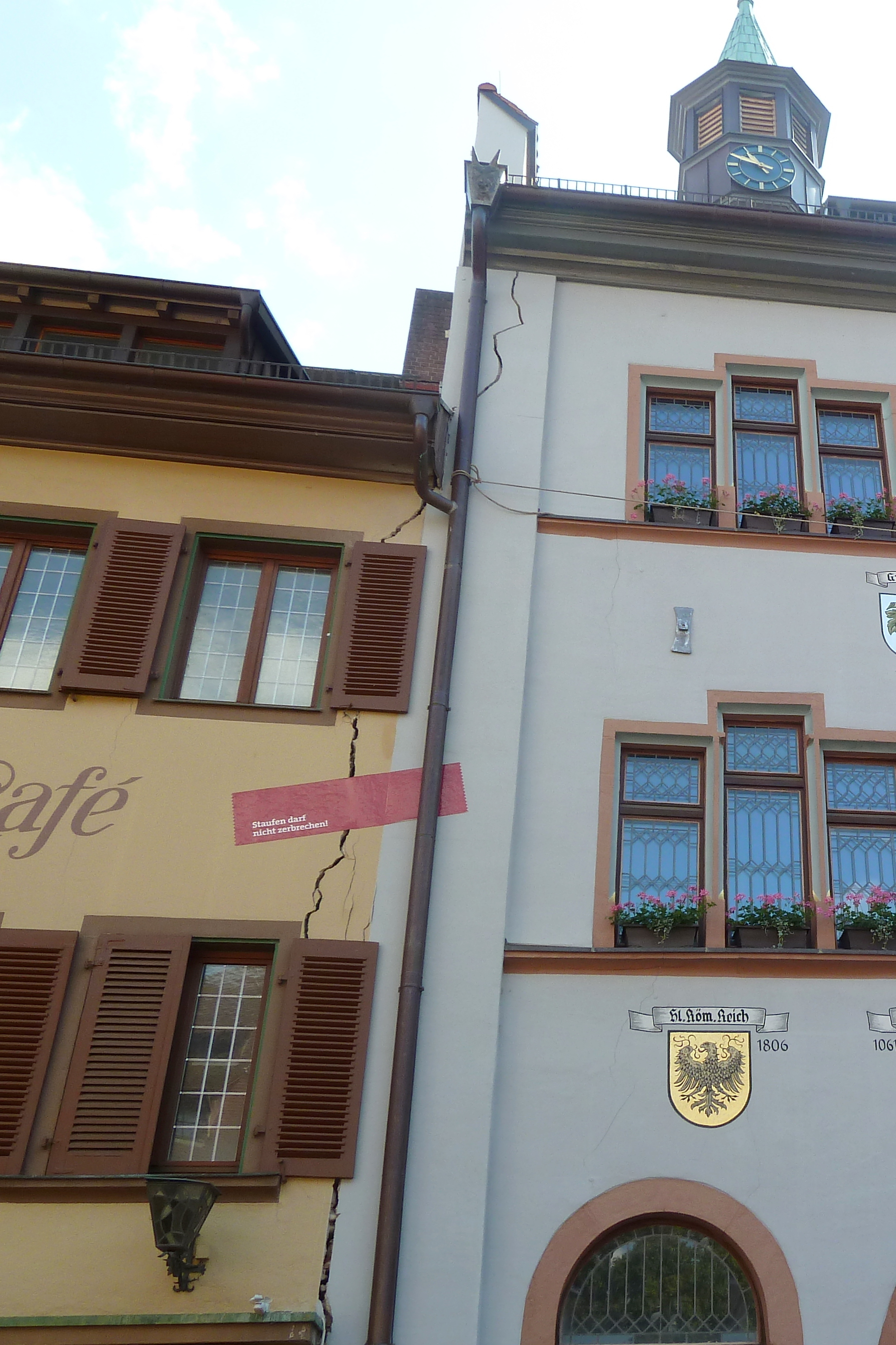 Cracks in the historic city hall at Staufen, Germany possibly due to damage from geothermal drilling